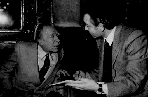 Jorge Luis Borges and Riccardo Campa in Rome, 1983